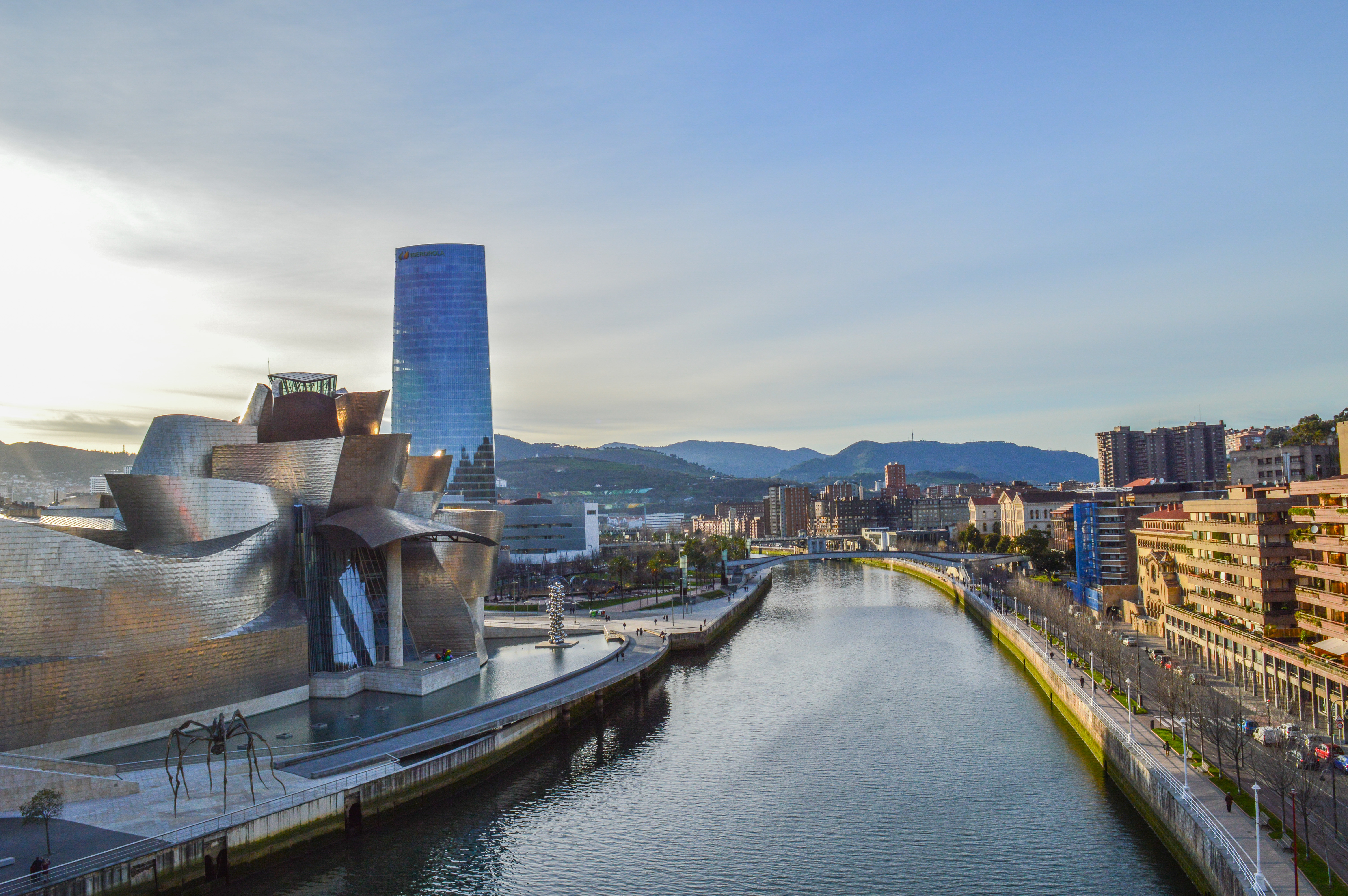 Bilbao: Viewof the Guggenheim Museum, Iberdrola Tower and the Nervion river. Edit of a previous post.